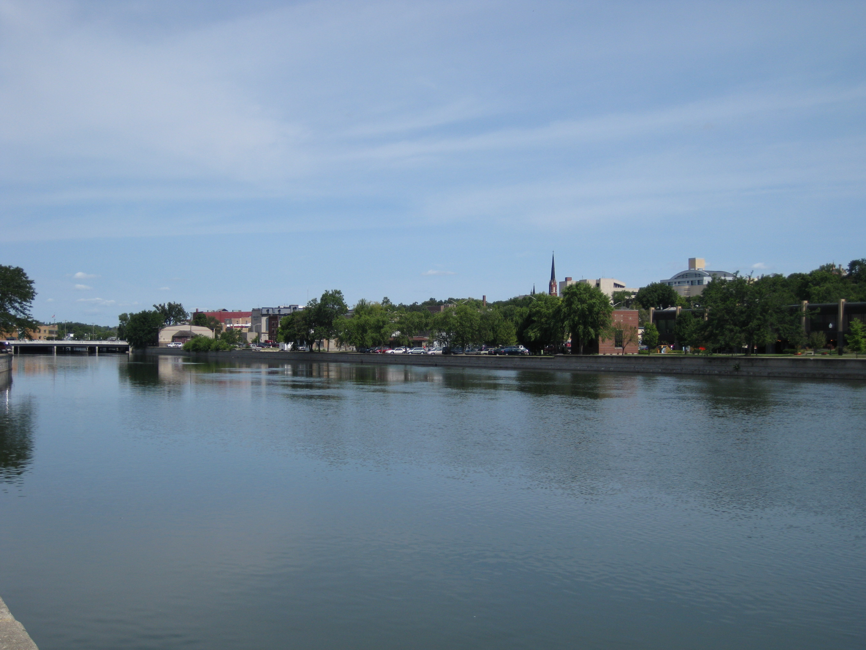 Janesville, Wisconsin, across the river.